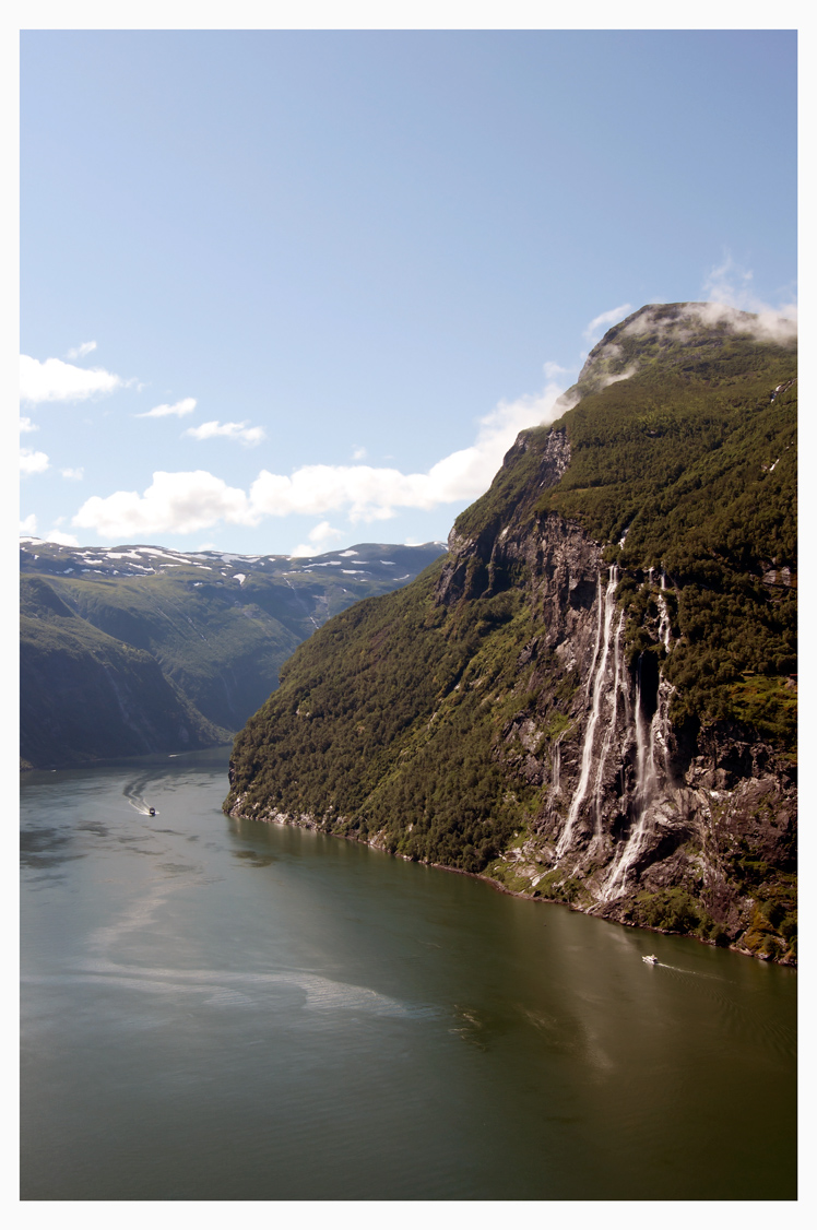 View from Skageflå